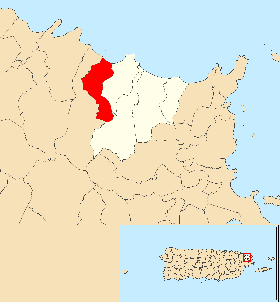 Mameyes I, Luquillo, Puerto Rico locator map